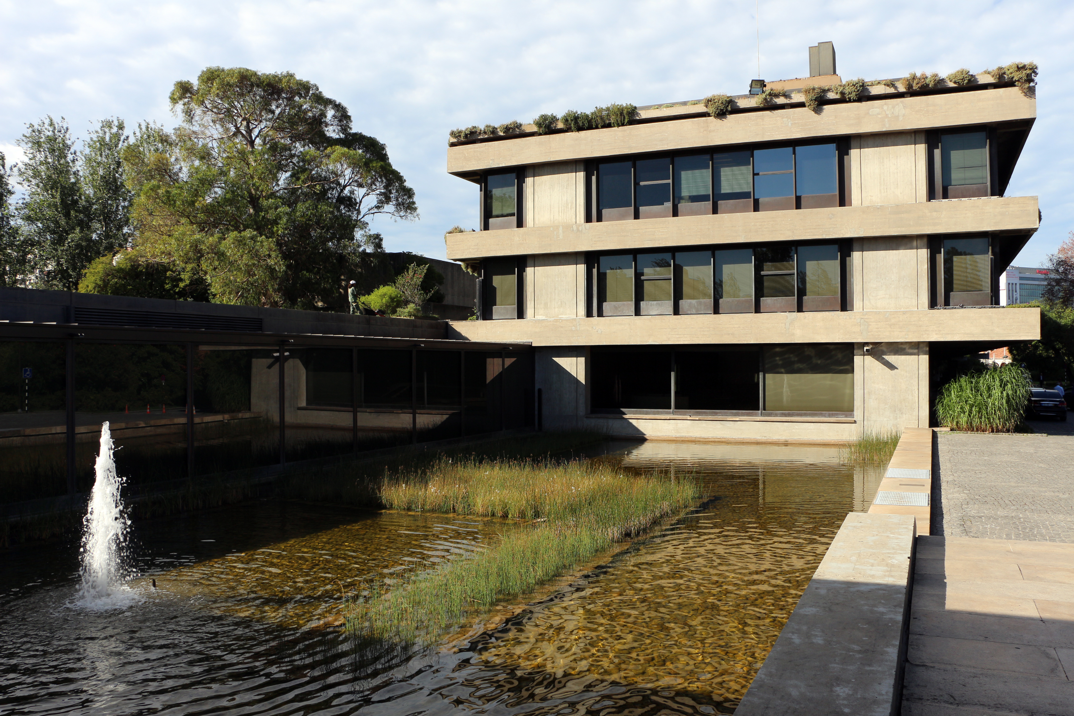 Calouste Gulbenkian Museum